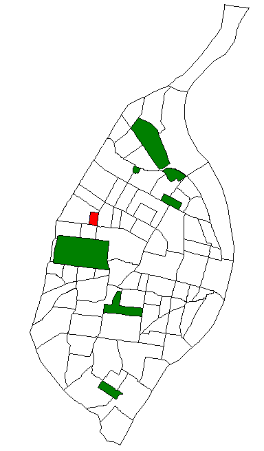 Map of St. Louis neighborhood #49